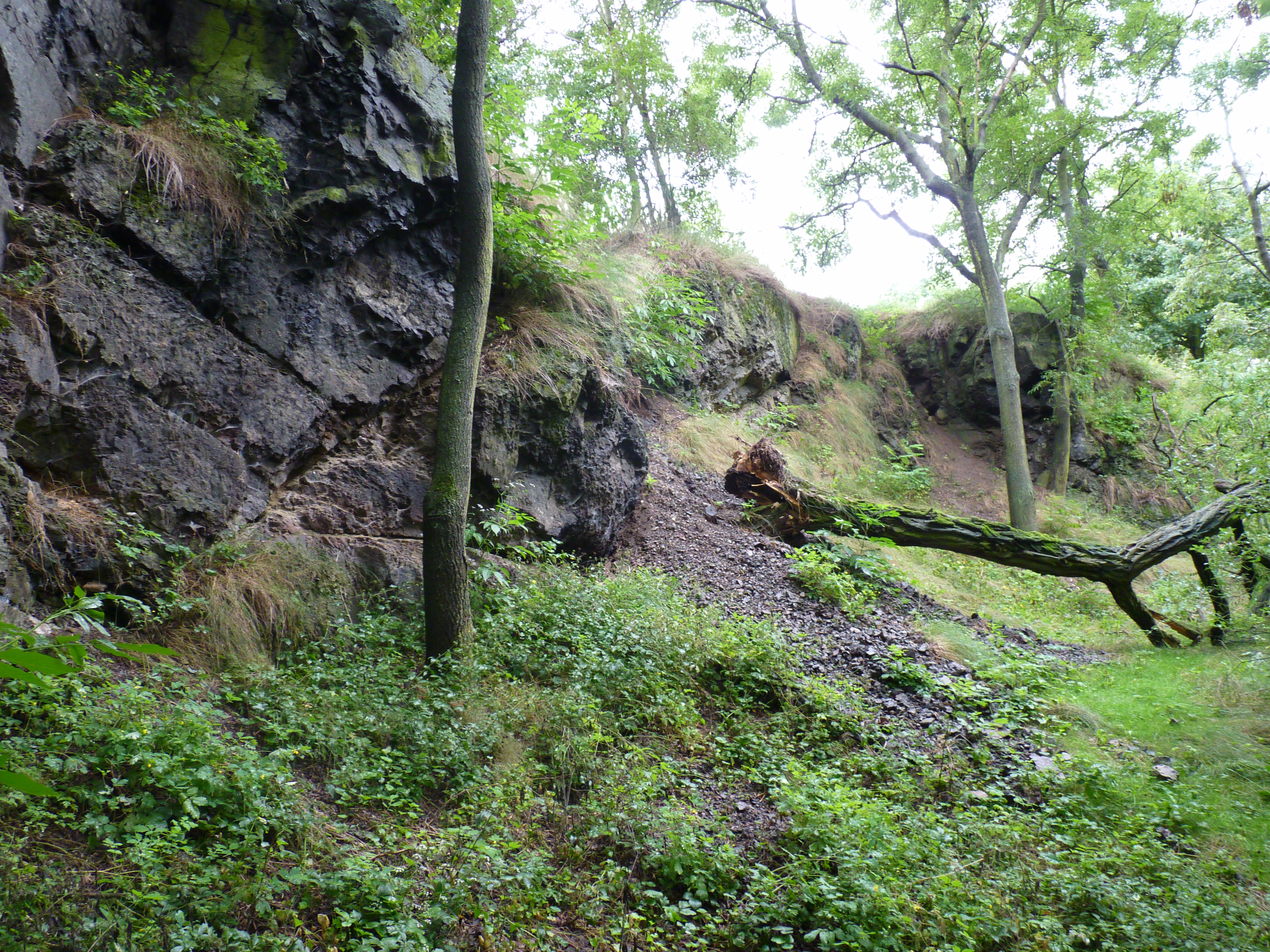 Natural monument Lůmek u Bečvár